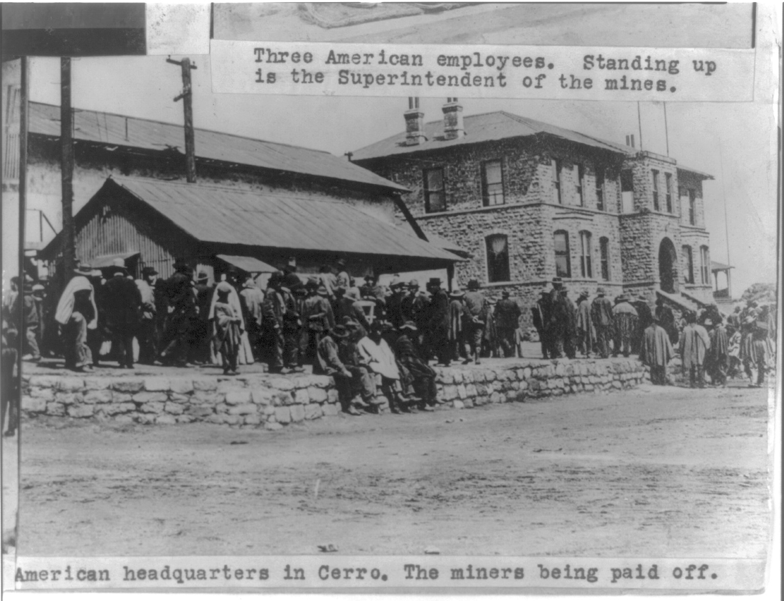 Title: Cerro de Pasco, Peru. March 1914. Copper mine. Abstract: Miners being paid off at American headquarters. Physical description: 1 photographic print. Notes: LOT subdivision subject: Peru.; Title and other information transcribed from caption card and item.; Frank and Frances Carpenter Collection (Library of Congress).